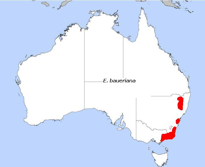 Disribution of Eucalyptus baueriana